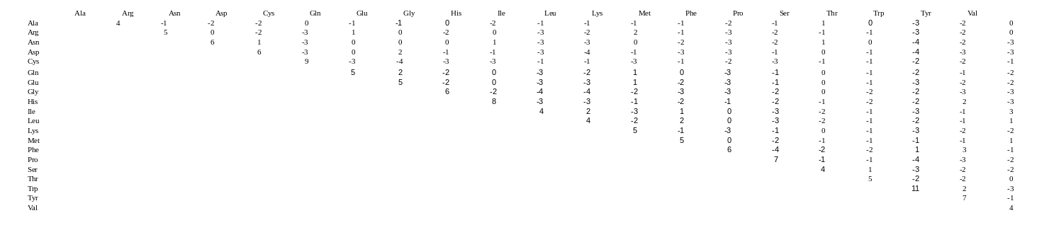 this table is BLOSUM62 matrix for sequence alignment